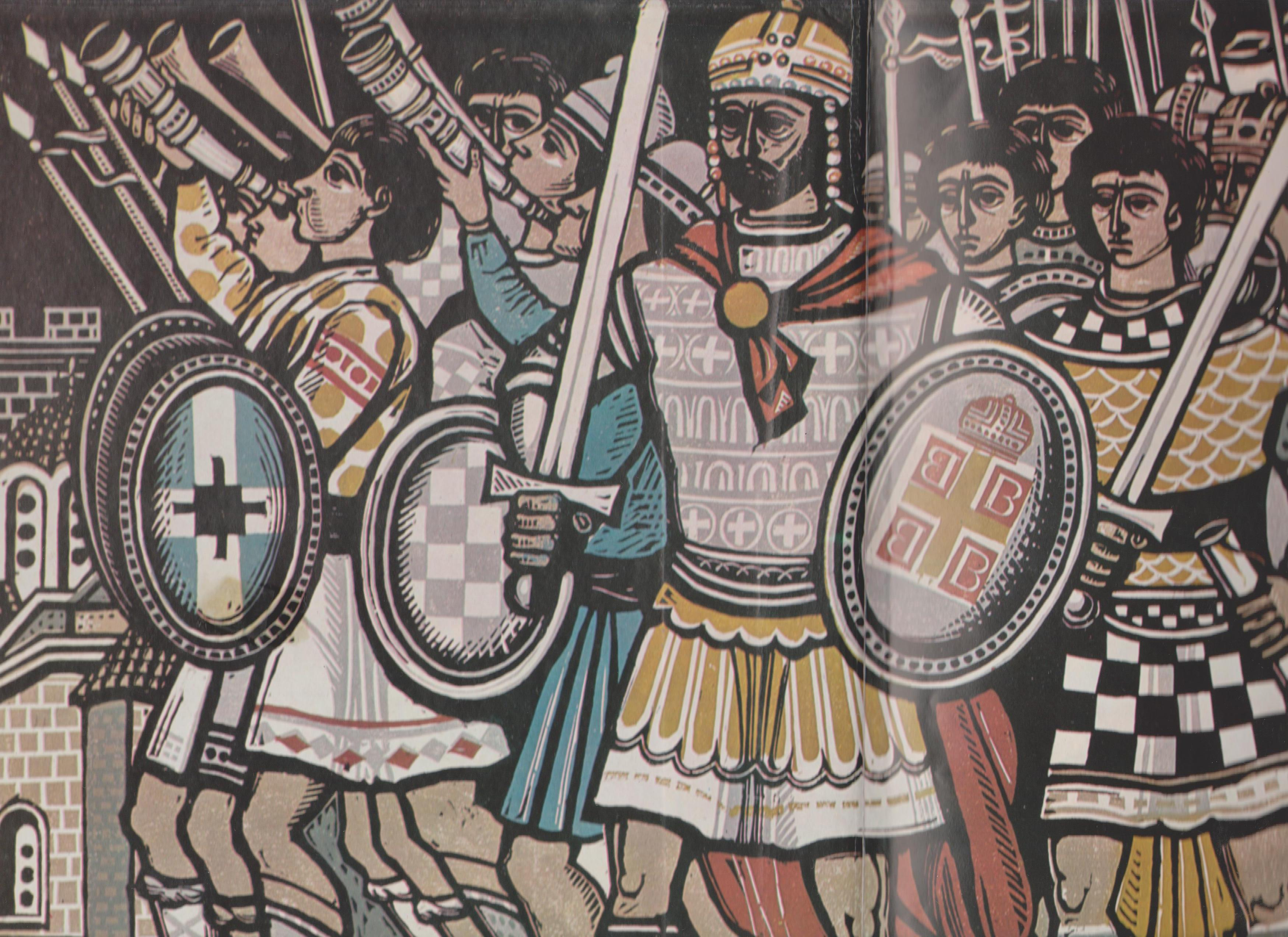 Constantine Palaiologos . Defending Constantinople - 1453. Author (etcher) Tassos (1914-1985). Scanned from edition “Δ.Φωτιάδης, Η Επανάσταση του 21, εκδ.Μέλισσα 1971.